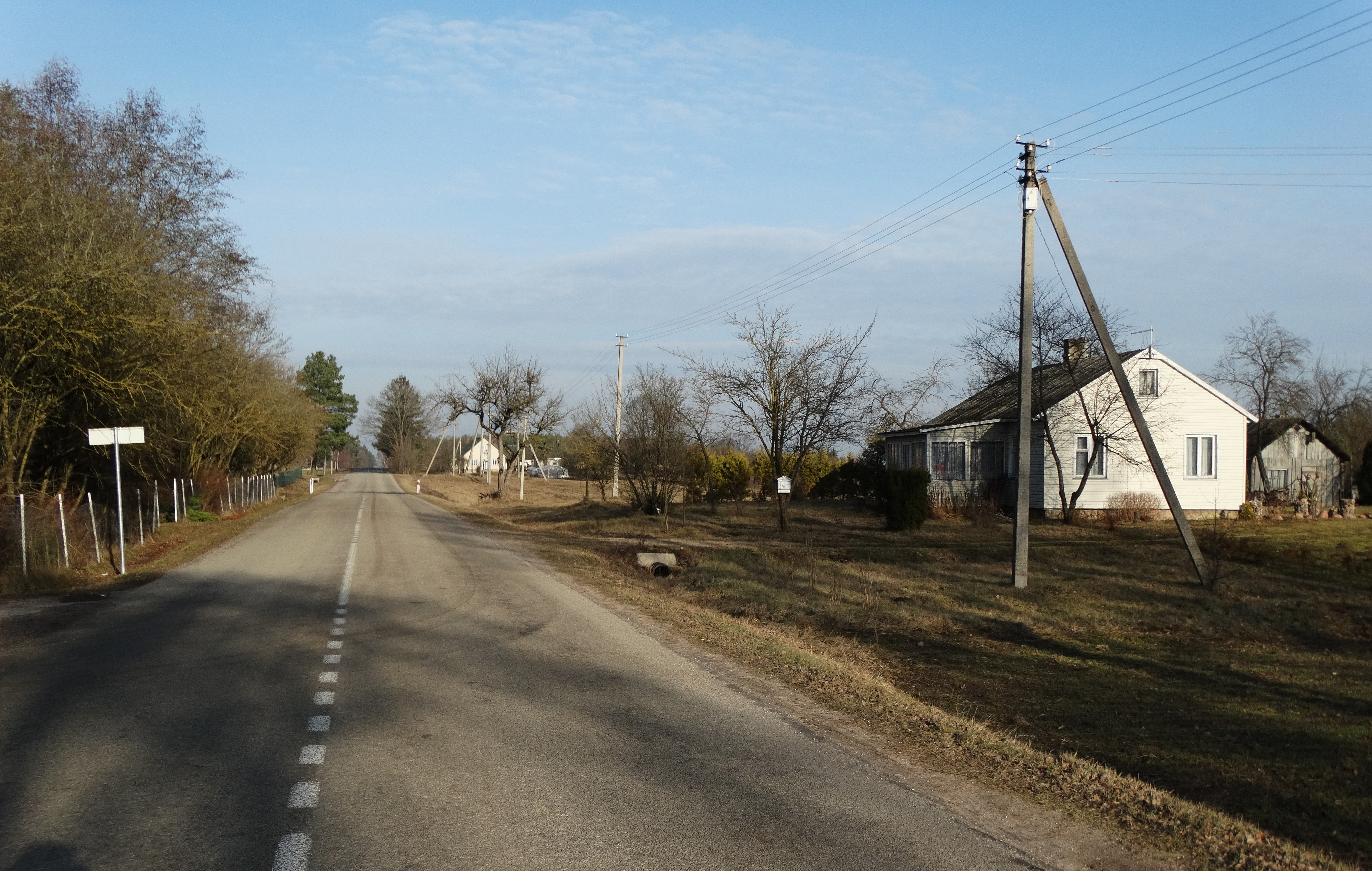 Balninkai, Alytus district, Lithuania